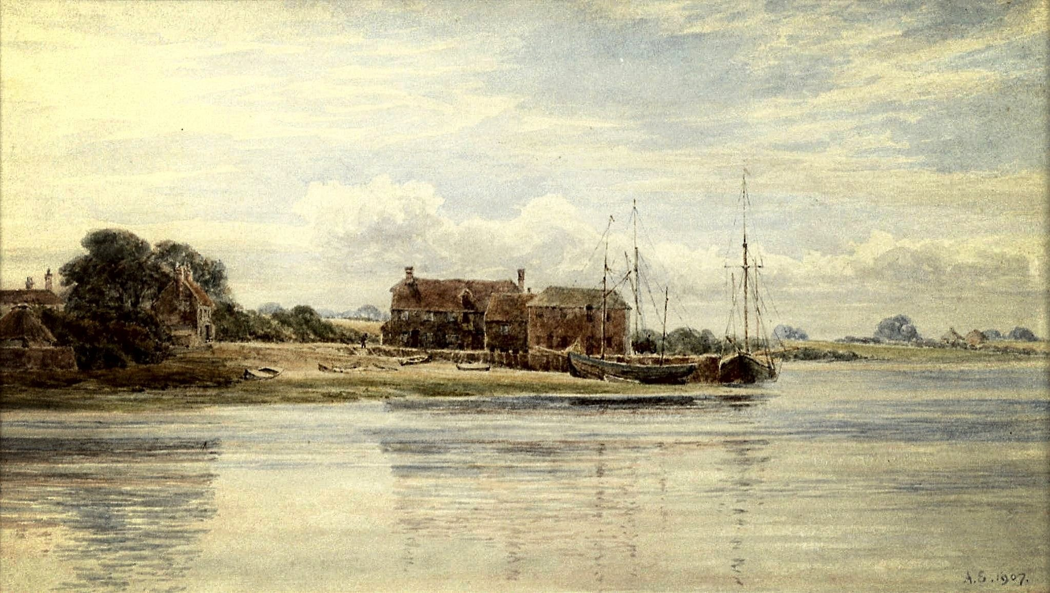 Dell Quay, West Sussex. Watercolour, signed lower-right with initials and dated 1907. Dr. Arthur Evershed, painter, etcher, physician was born into a Sussex family at Billingshurst in 1836 and moved to Fishbourne from Hampstead in 1894. He was educated in London at Alfred Clint's studio and Leigh's School of Art (1852-59). Life as an artist was too uncertain so he followed his father and brother in studying medicine. He qualified in 1863 and married Mary Field (daughter of the Assay Master at the Royal Mint) in the Chapel Royal of the Tower of London in 1864. "Richard Martin Gallery".